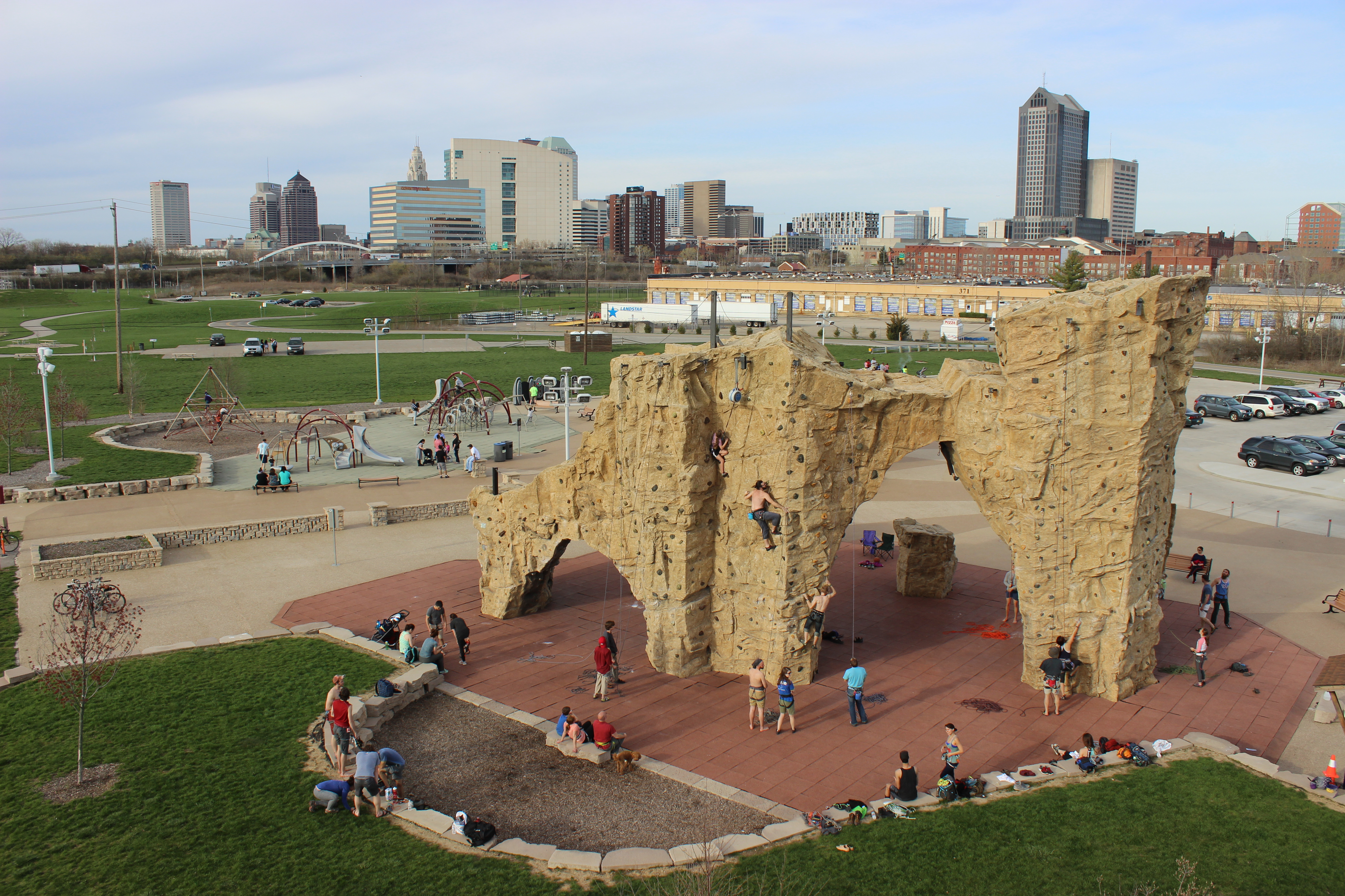 The climbing wall at Scioto Audubon park in Columbus, Ohio with the skyline in the background.